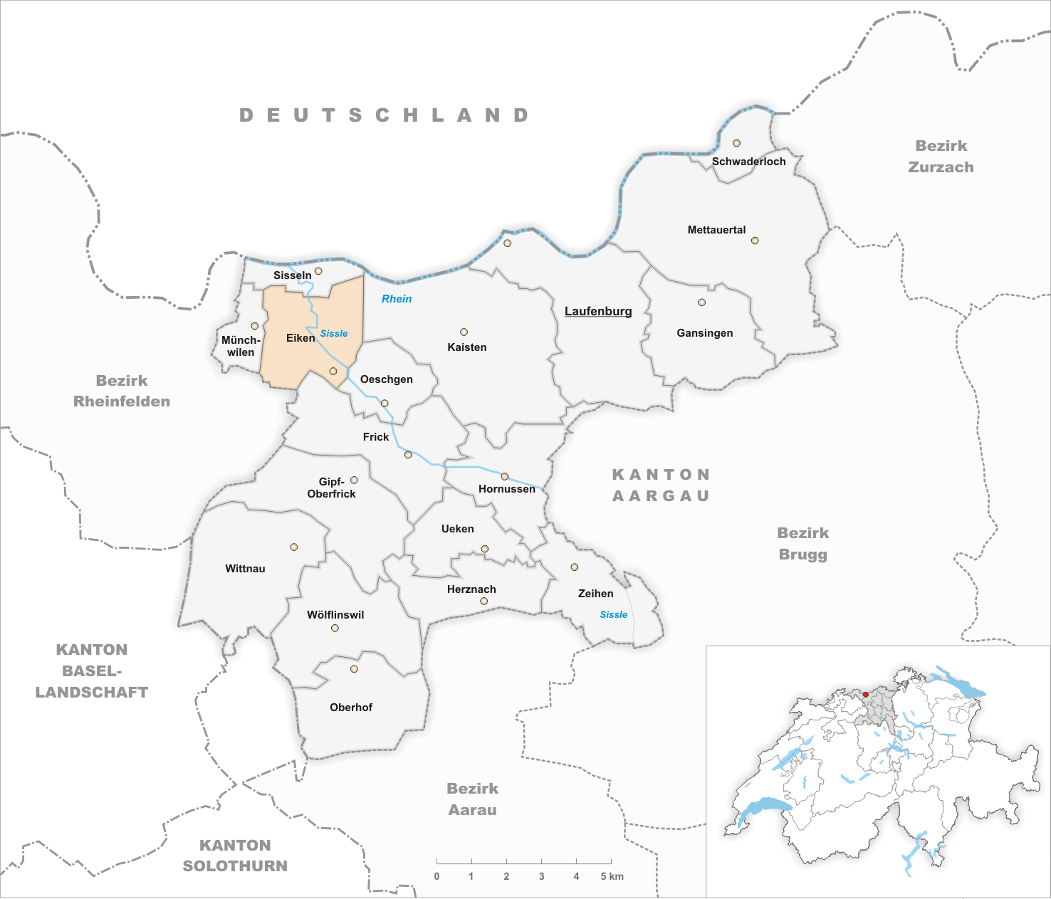 Municipality Eiken